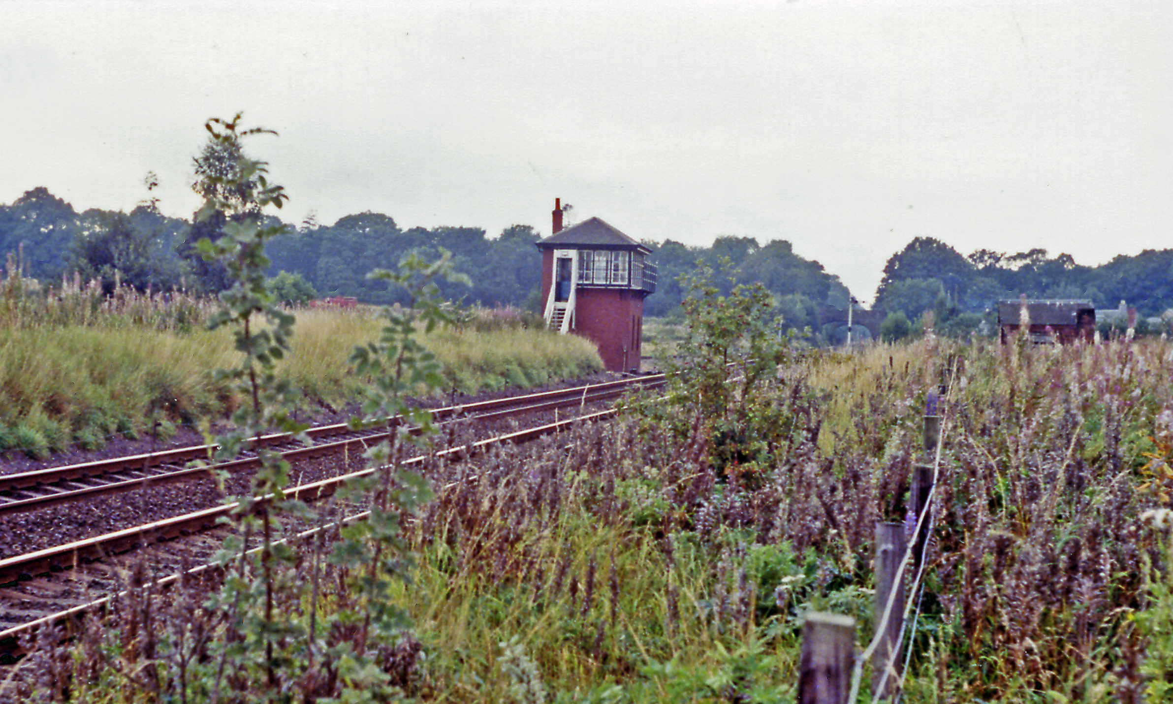 Site of Auchterarder station, 1991. View SW, towards Stirling, Glasgow etc.: ex-Caledonian Railway, Glasgow etc. - Stirling - Perth etc. main line. The station had been closed since 11/6/56; just the signalbox seemed to be left.